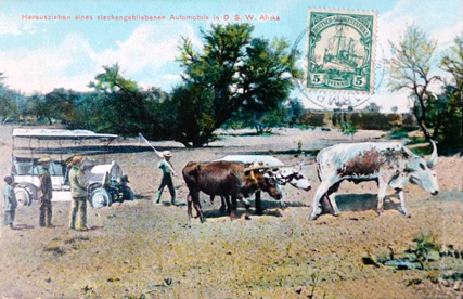 All-wheel drive car of the Daimler-Motoren-Gesellschaft (DMG) in use in German Southwest Africa